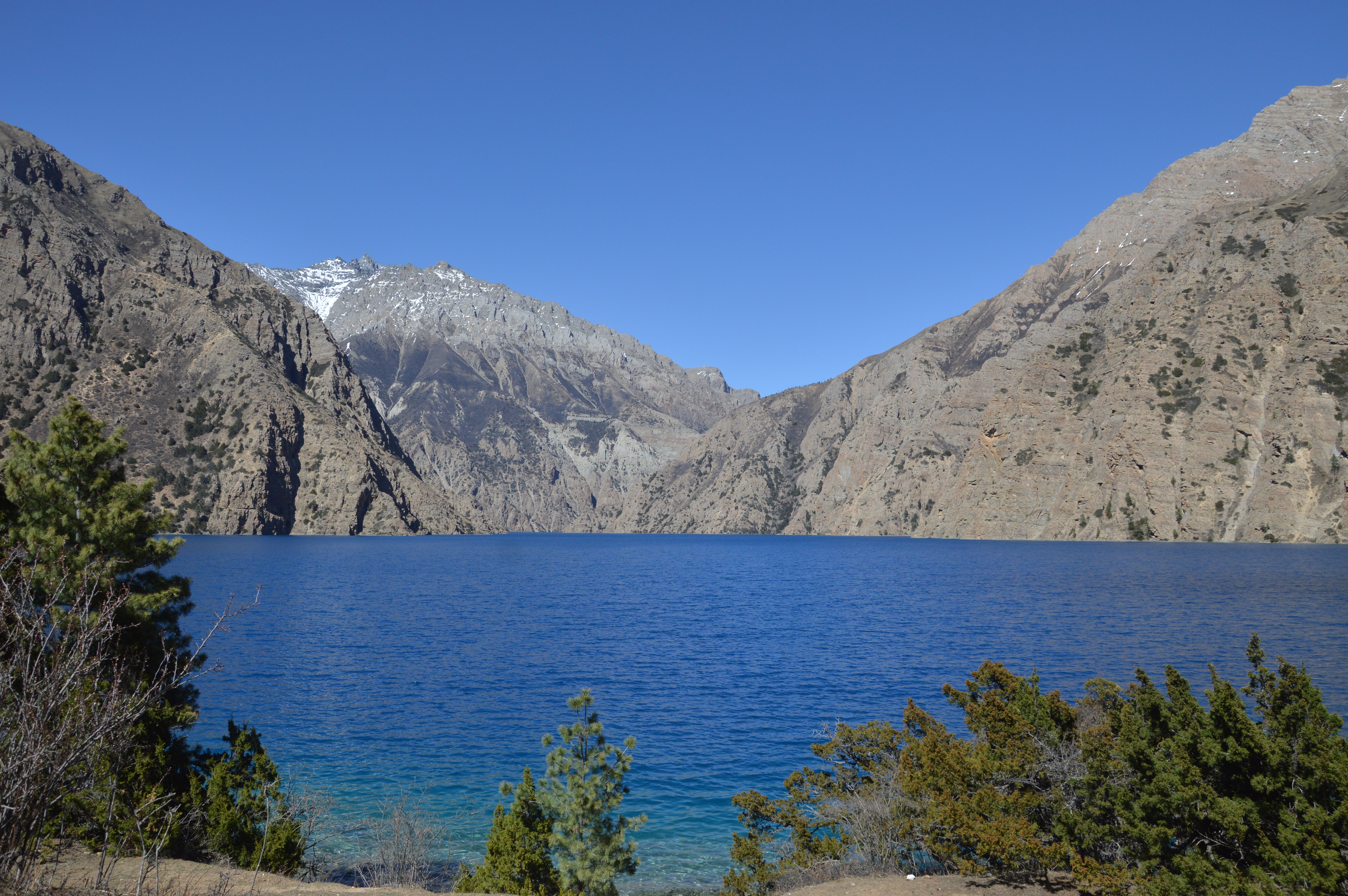 Phoksundo lake is the deepest lake of Nepal situated in Upper Dolpa.